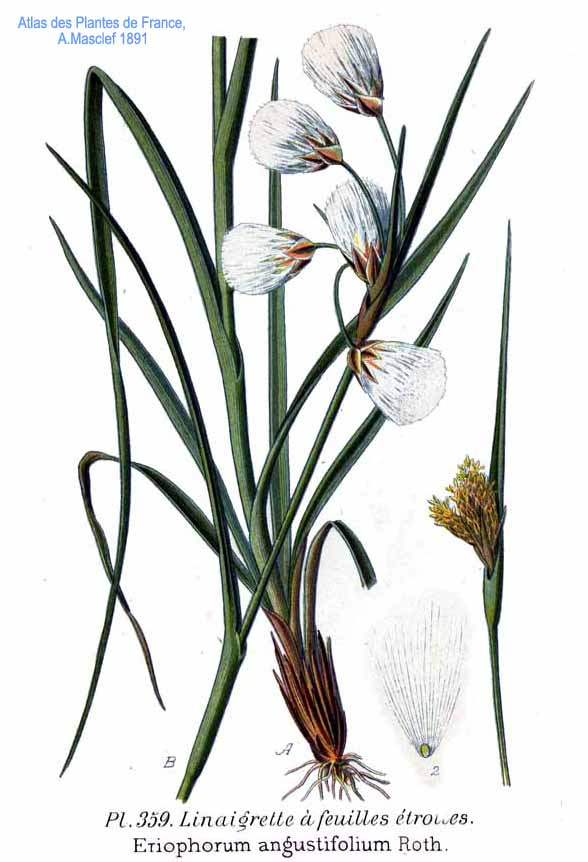 Eriophorum angustifolium Roth.